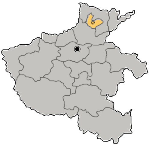 The prefecture-level city of Hebi is highlighted on this map of Henan province, People's Republic of China.